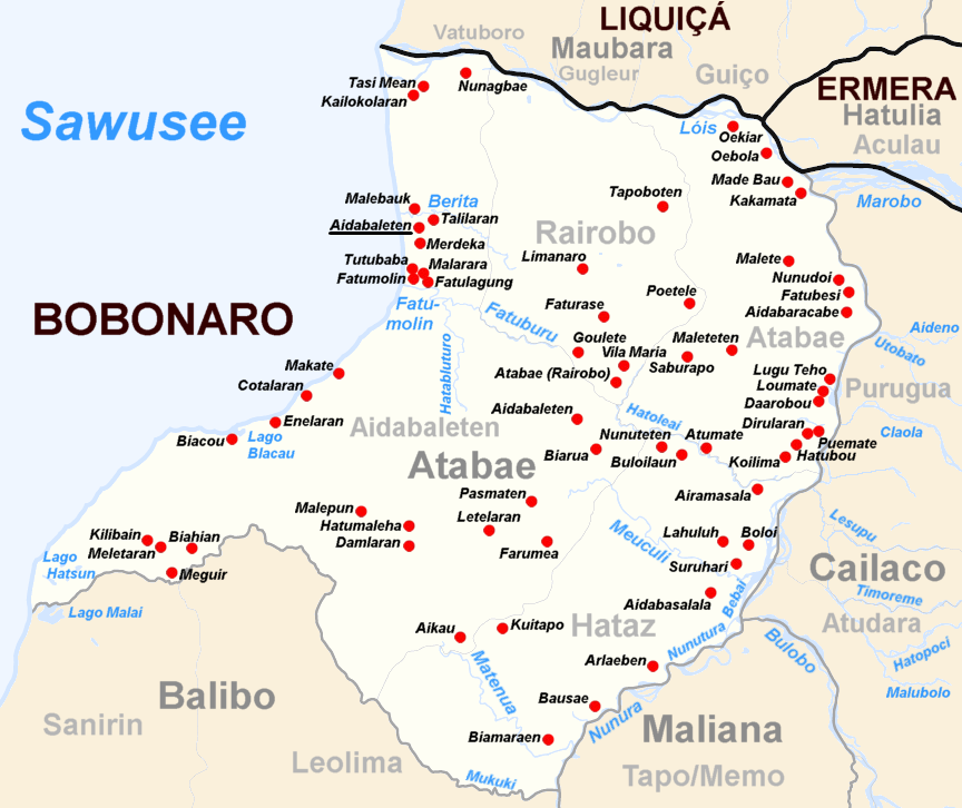 The administrative post of Atabae, municipality Bobonaro, East Timor